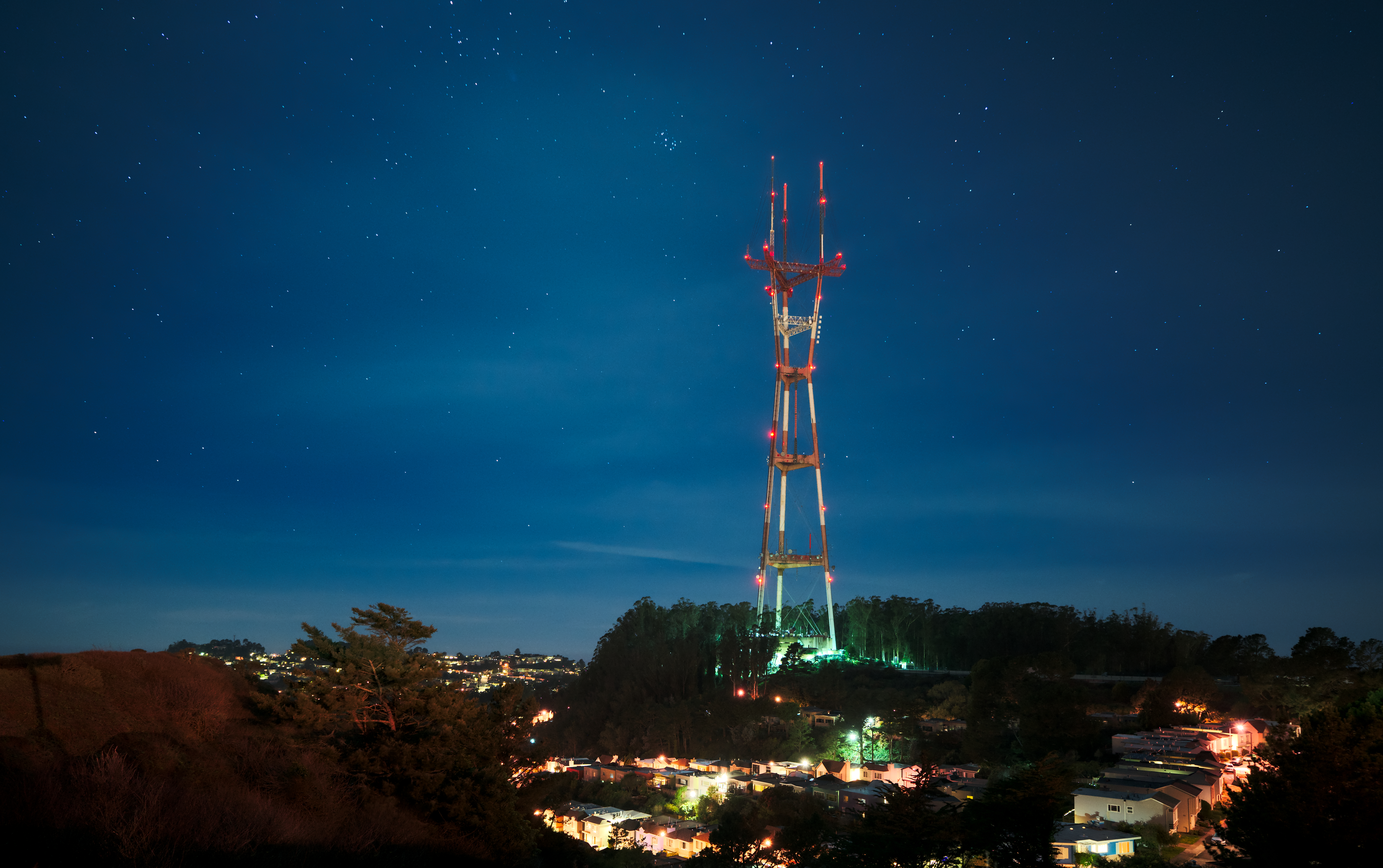 Sutro Tower, a radio antenna in San Francisco, viewed from Twin Peaks eight minutes to midnight.